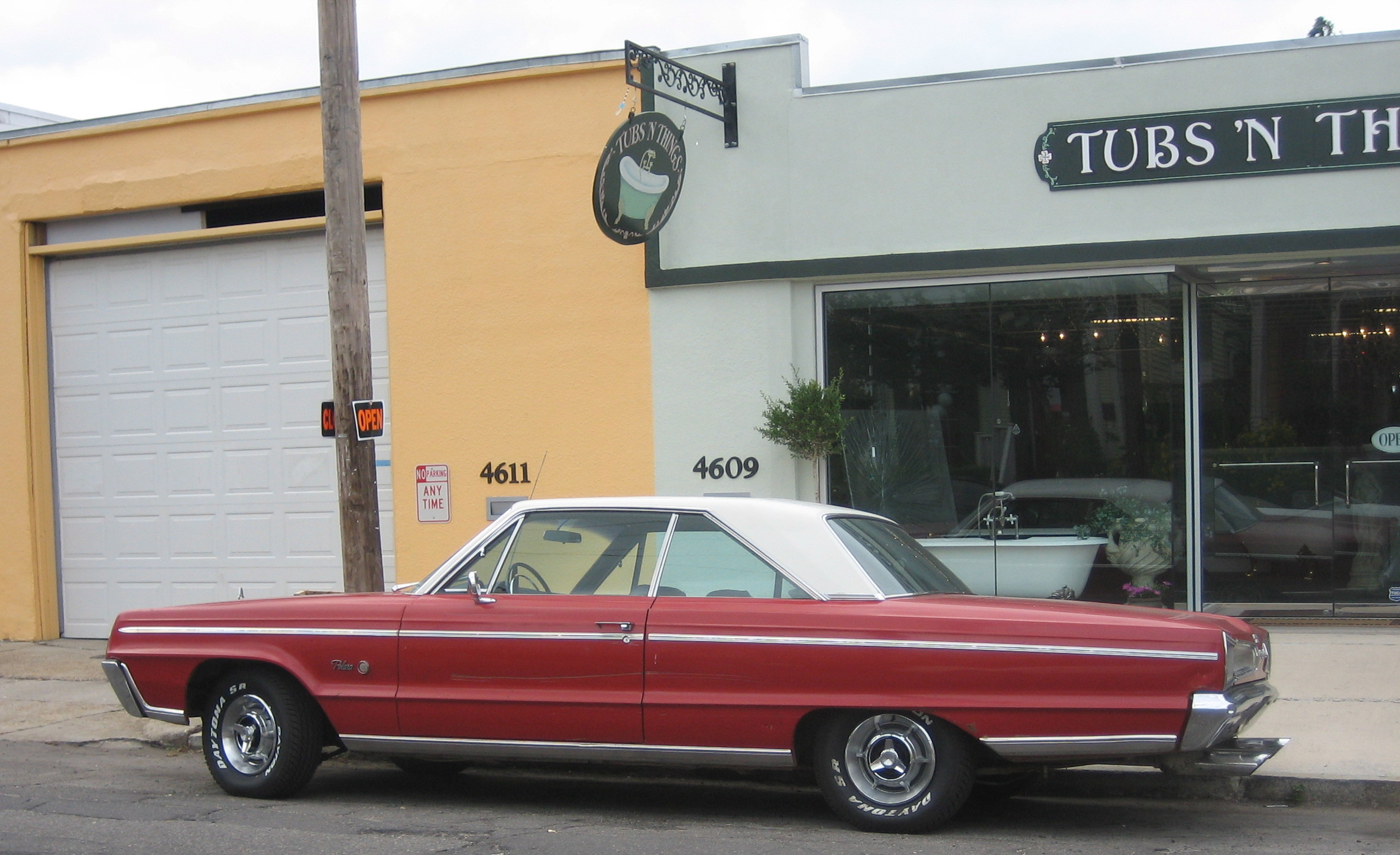 Dodge Polara from 1960s on Magazine Street, Uptown New Orleans